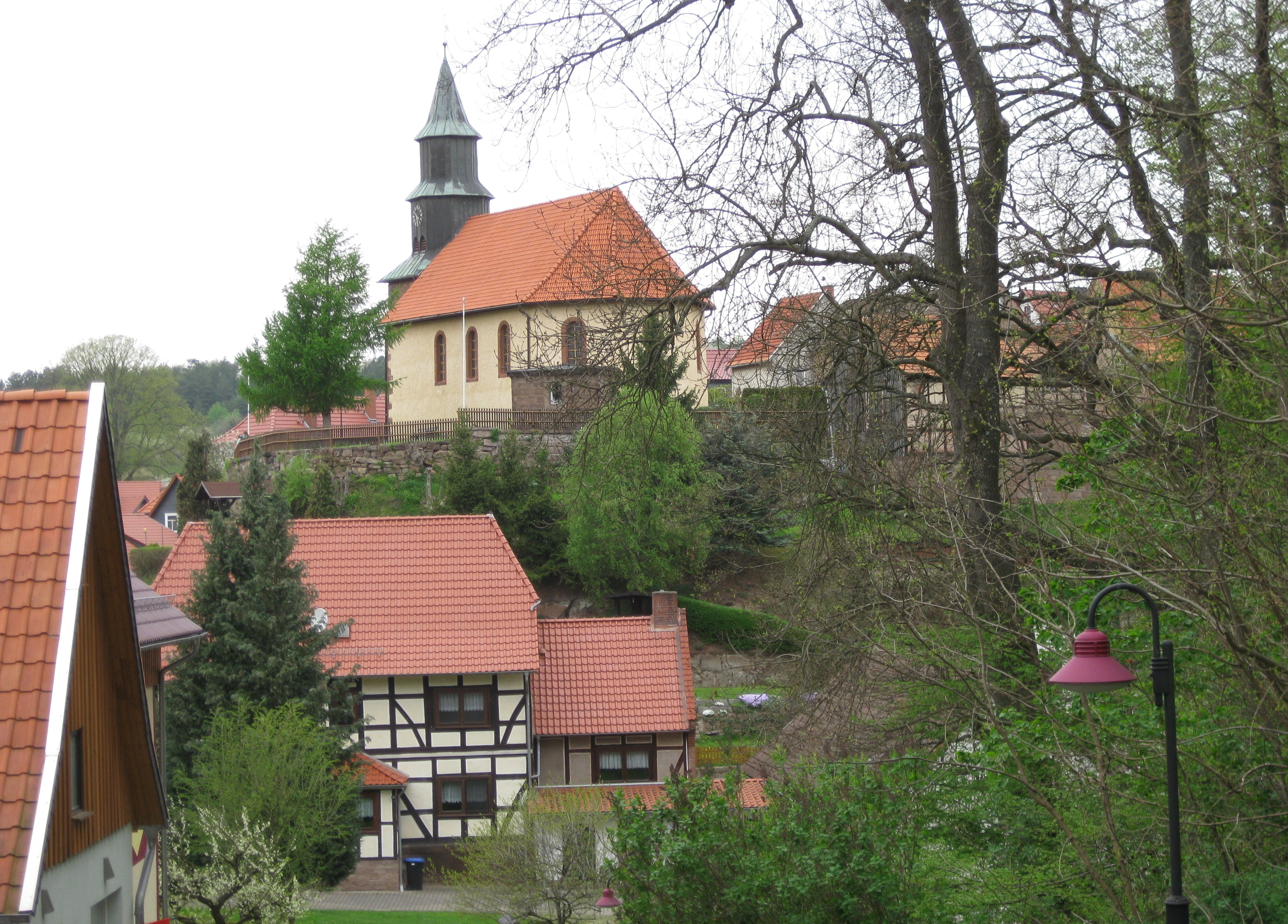 Birkenfelde church 01